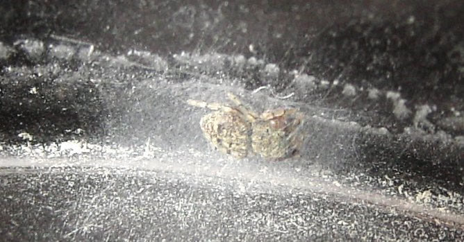 Ballus chalybeius from Cologne, Germany, caught in late September 2006. The spider is 3 to four millimeters long (without legs). Pictured in its silken retreat. Sorry for the bad resolution, this is the limit of my camera :( Identification by Barbara Thaler-Knoflach.